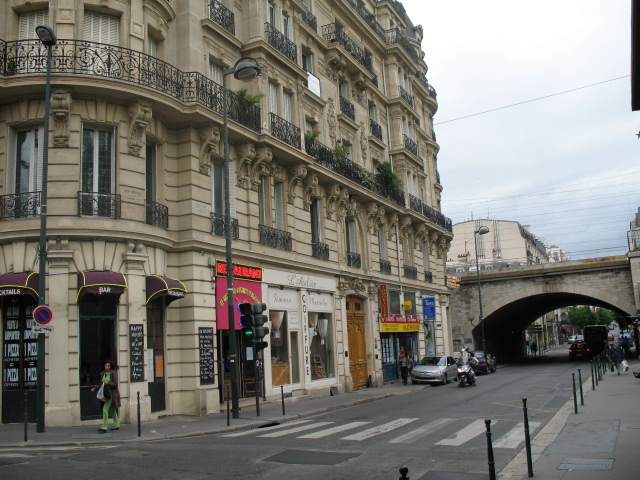 Streets of Asnières nearby the Transilien station. (Author: Metropolitan)